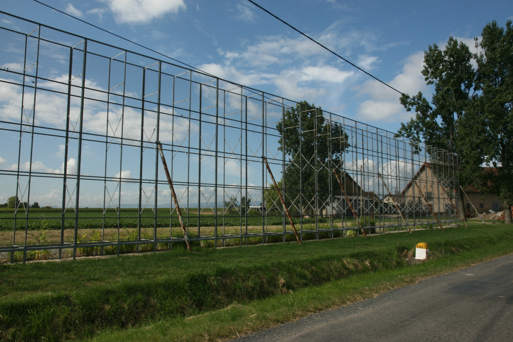 Corn Cribs: attic exterior consists of a wire mesh cage and used for the slow drying by ambient air and storing the corn cobs. (Plain of Limagne, Aubiat, 63, France).